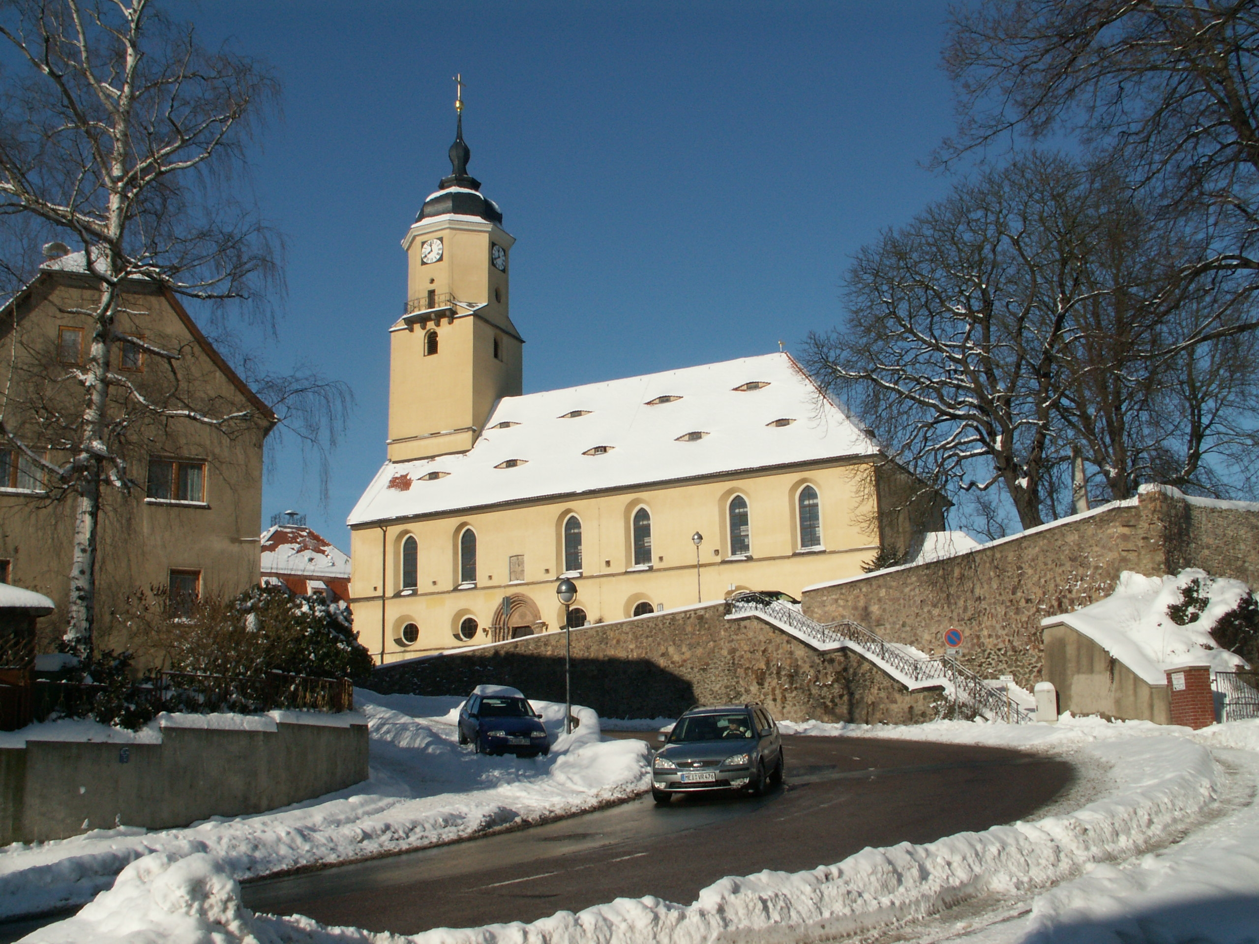 The church in Nossen (Germany)